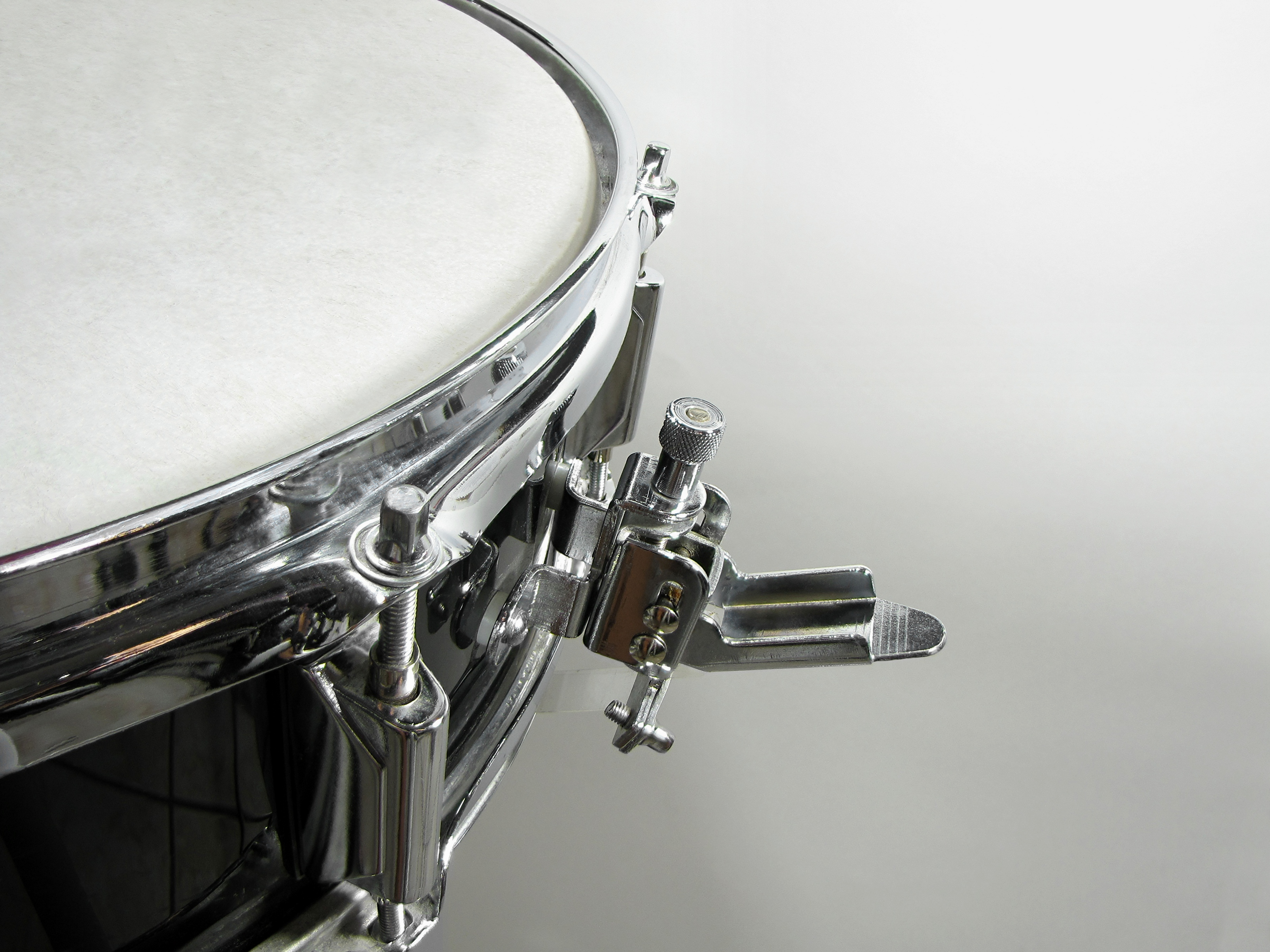 Snare drum strainer, used to enable or disable snares on a snare drum.